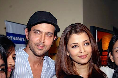 Indian actors Hrithik Roshan and Aishwarya Rai at the screening of Guzaarish in 2010